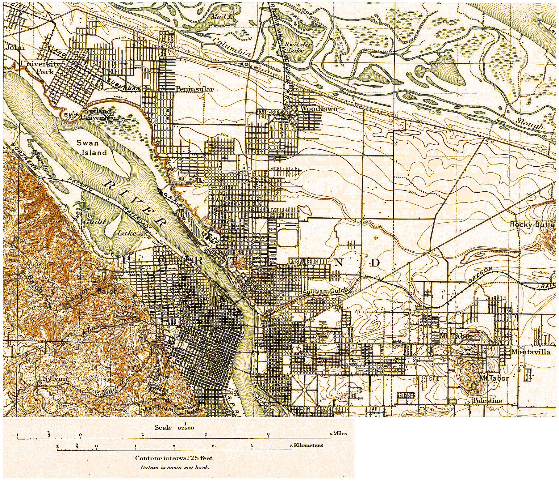 Topographic map of Portland, U.S. as of 1897. I processed the original scan to remove 100+ years of aging ink and paper by color replacements and sharpening.